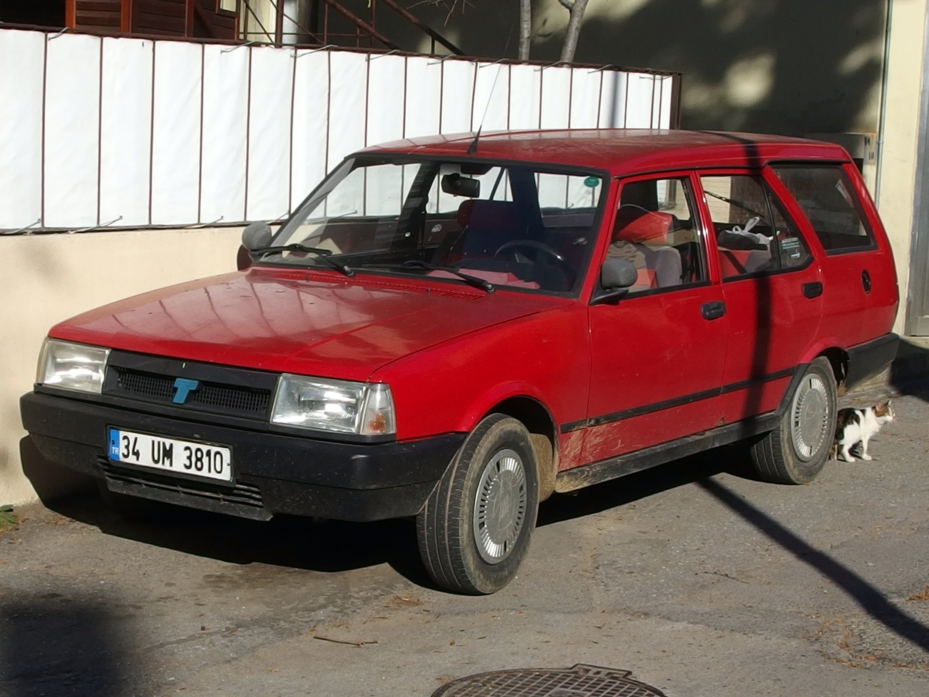 2013-12-06 in Istanbul.